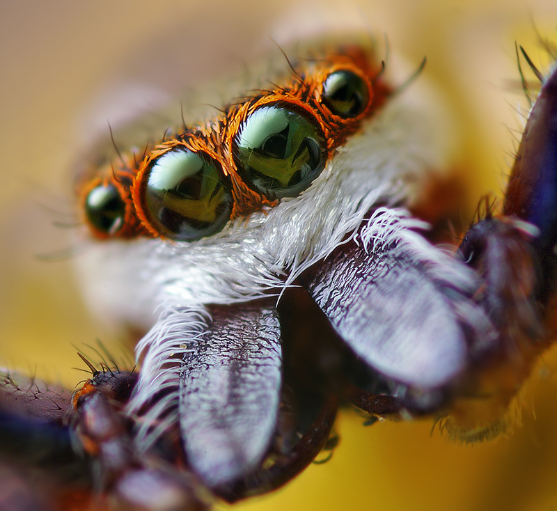 Not a great photo, and only one eye is in focus, but taking anything at 10:1 magnification and f/5.6 with a bellows is a small feat in itself (especially difficult if it is a jumping spider, but this guy spent some time cleaning his fangs with his palps, giving me a chance to try a high magnification shot). I used the 28mm reversed on extension tubes mounted to the bellows at full extension. The field of view as shown above is likely ~1.5mm give or take a bit, I'm guessing pretty roughly. I photographed a ruler using the above setup, and I could just barely fit 2mm in the field of view.